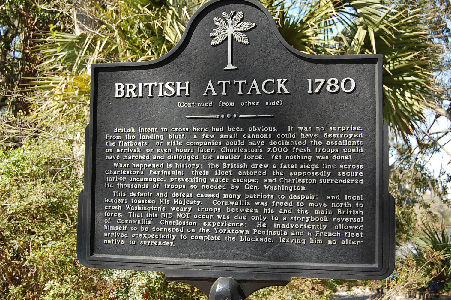 British attack 1780 Charlston